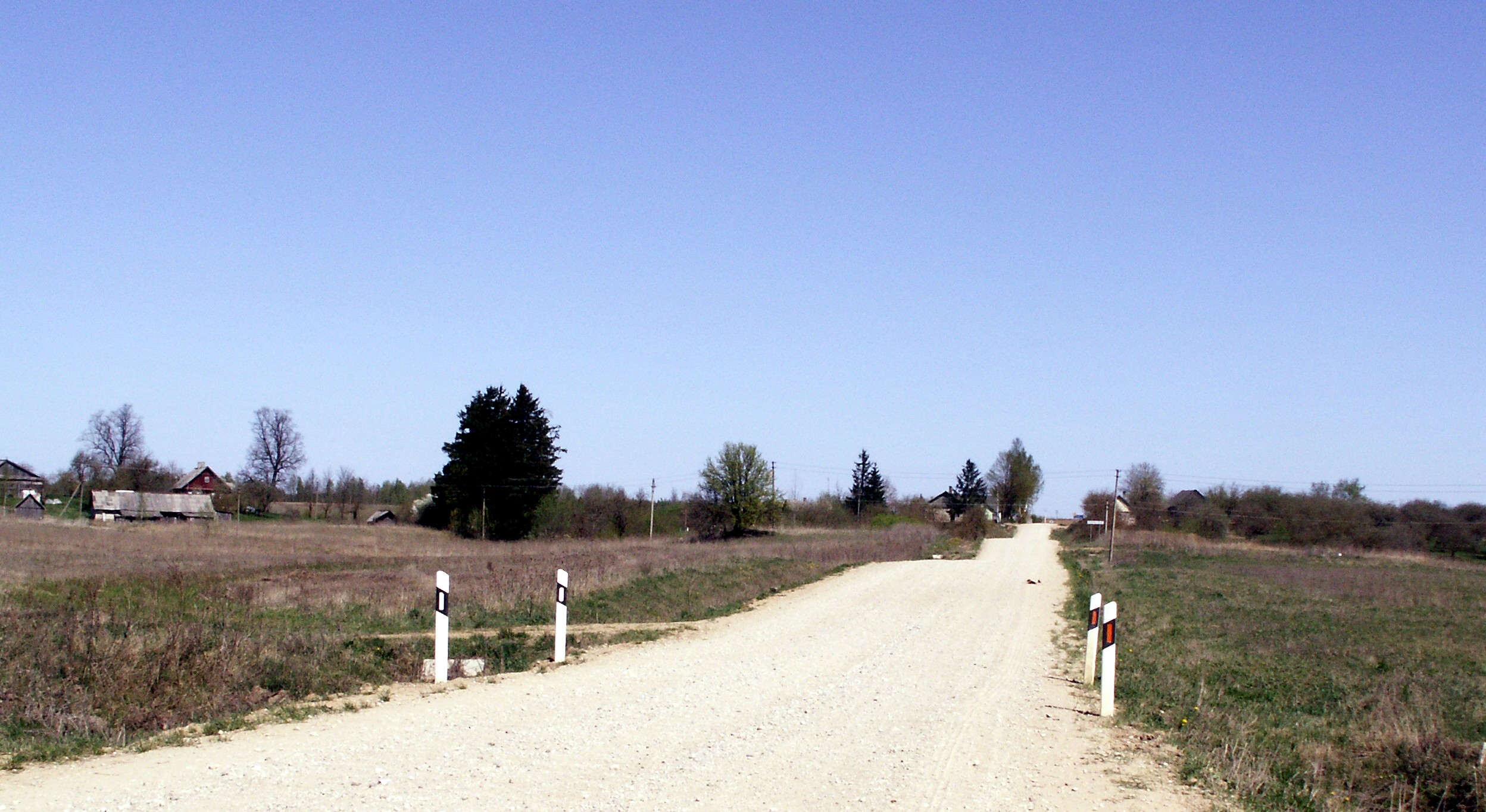 Žydavainiai, Molėtai district, Lithuania